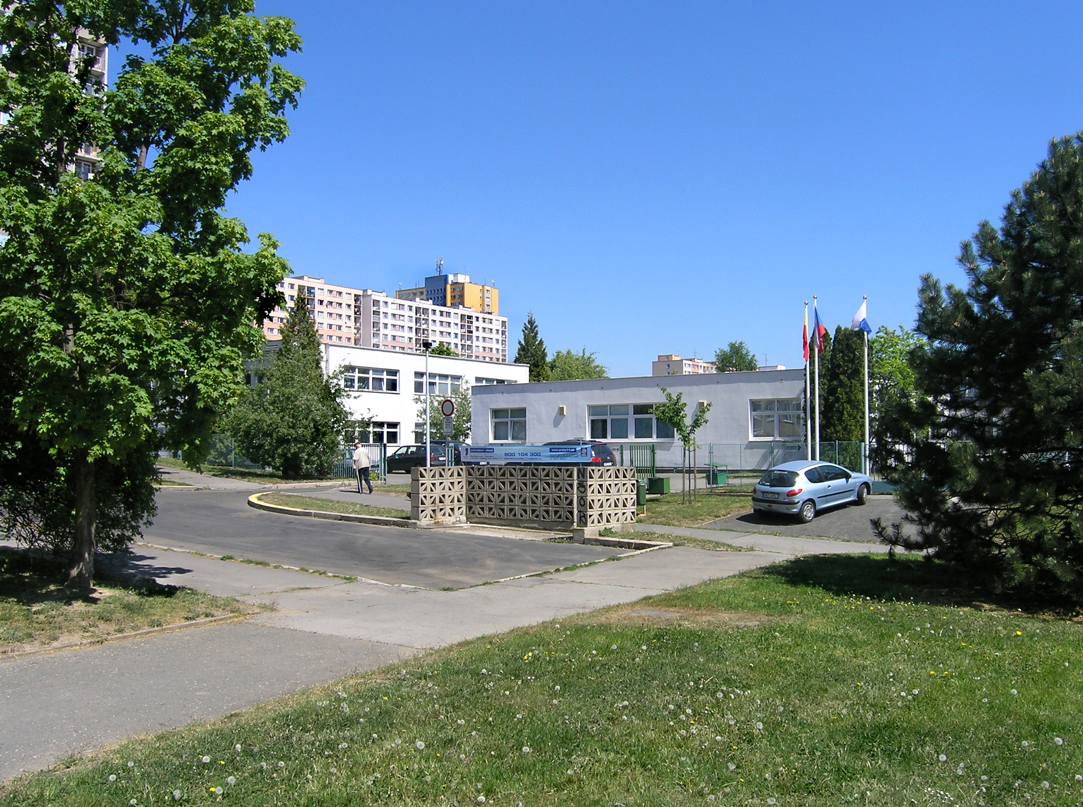 Town Hall of Prague 11 at Háje